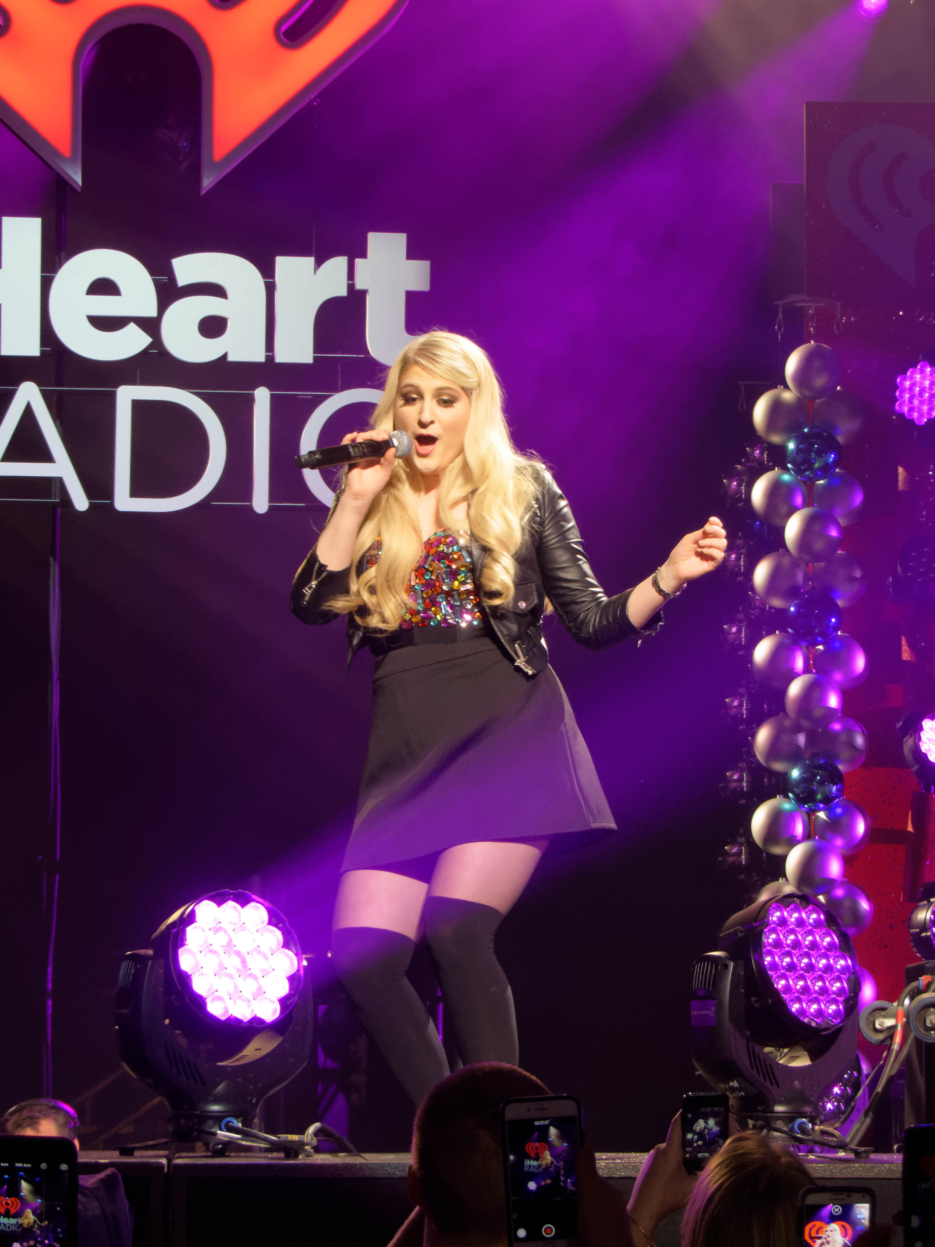 Q102 Philly Jingle Ball 2014